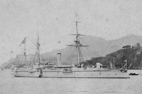 Japanese Maya-class gunboat CHOKAI at Sasebo.